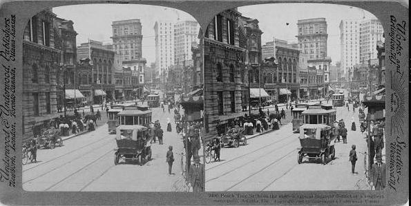 Peach Tree St. from the east - a typical business district of a southern metropolis, Atlanta, Ga. New York ; London ; Toronto-Canada ; Ottawa-Kansas : Underwood & Underwood, Publishers, c1907 Feb. 6. photographic print on stereo card : stereograph.